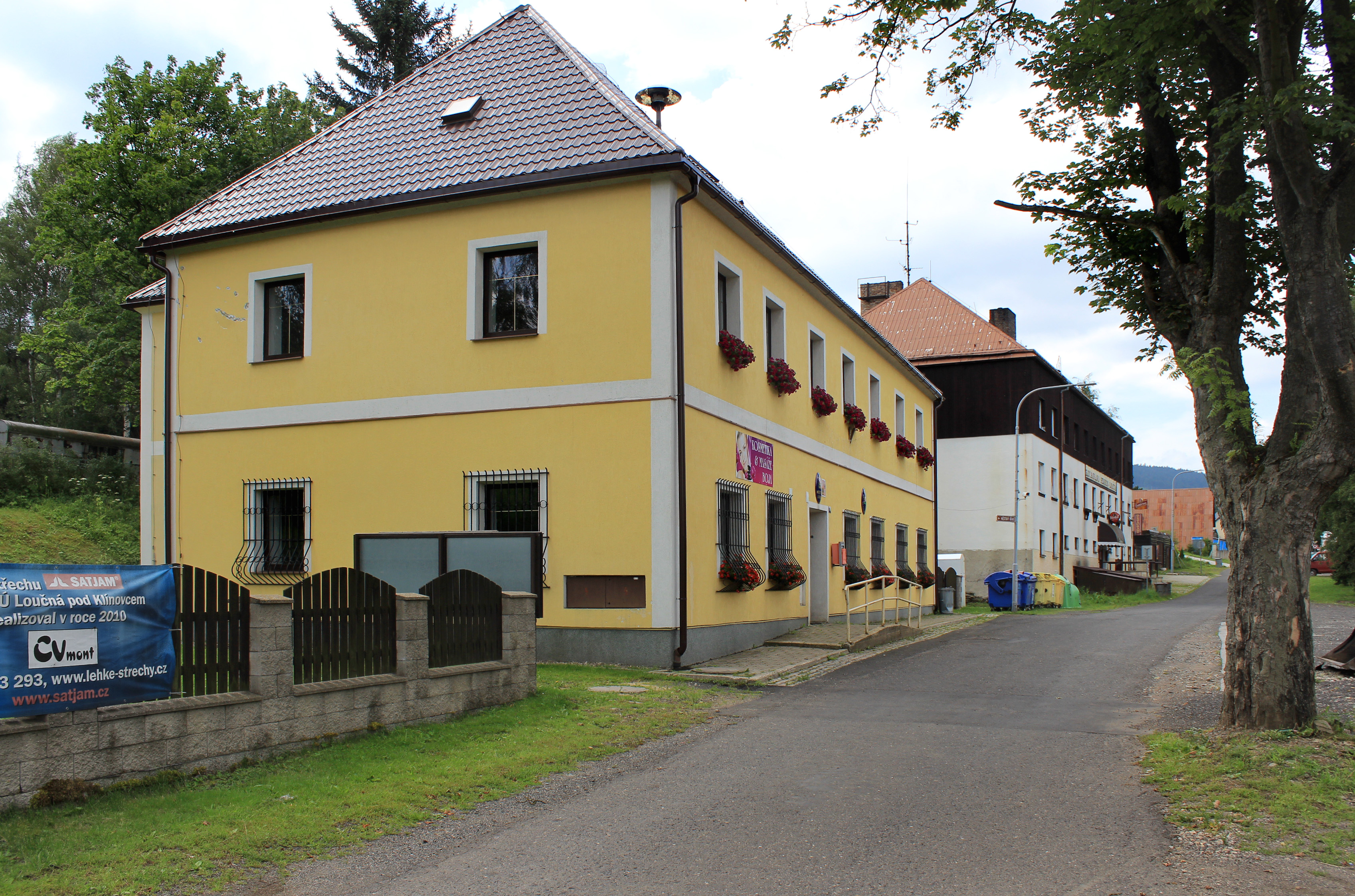 Municipal office in Loučná pod Klínovcem, Czech Republic.